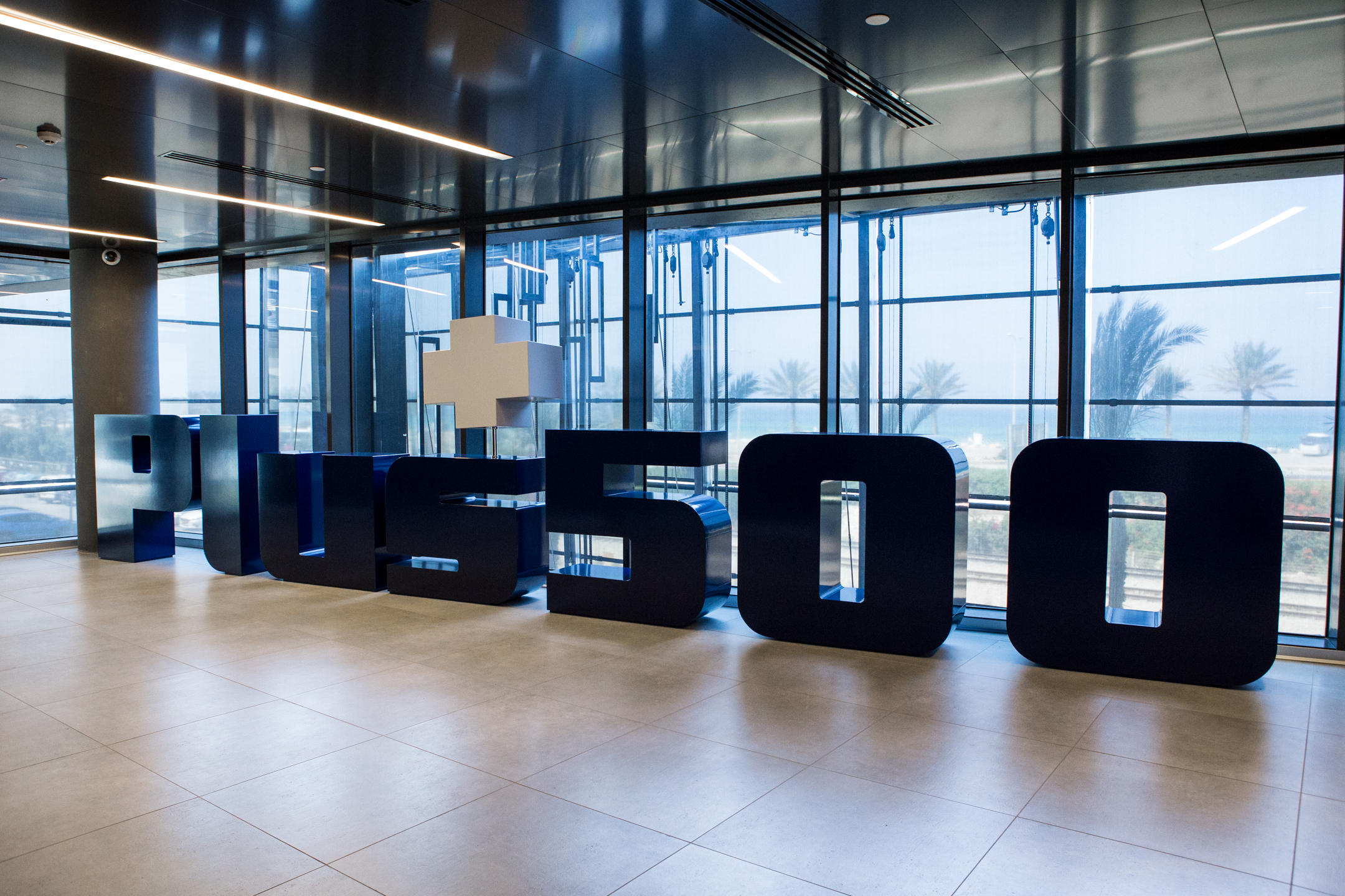 Plus500